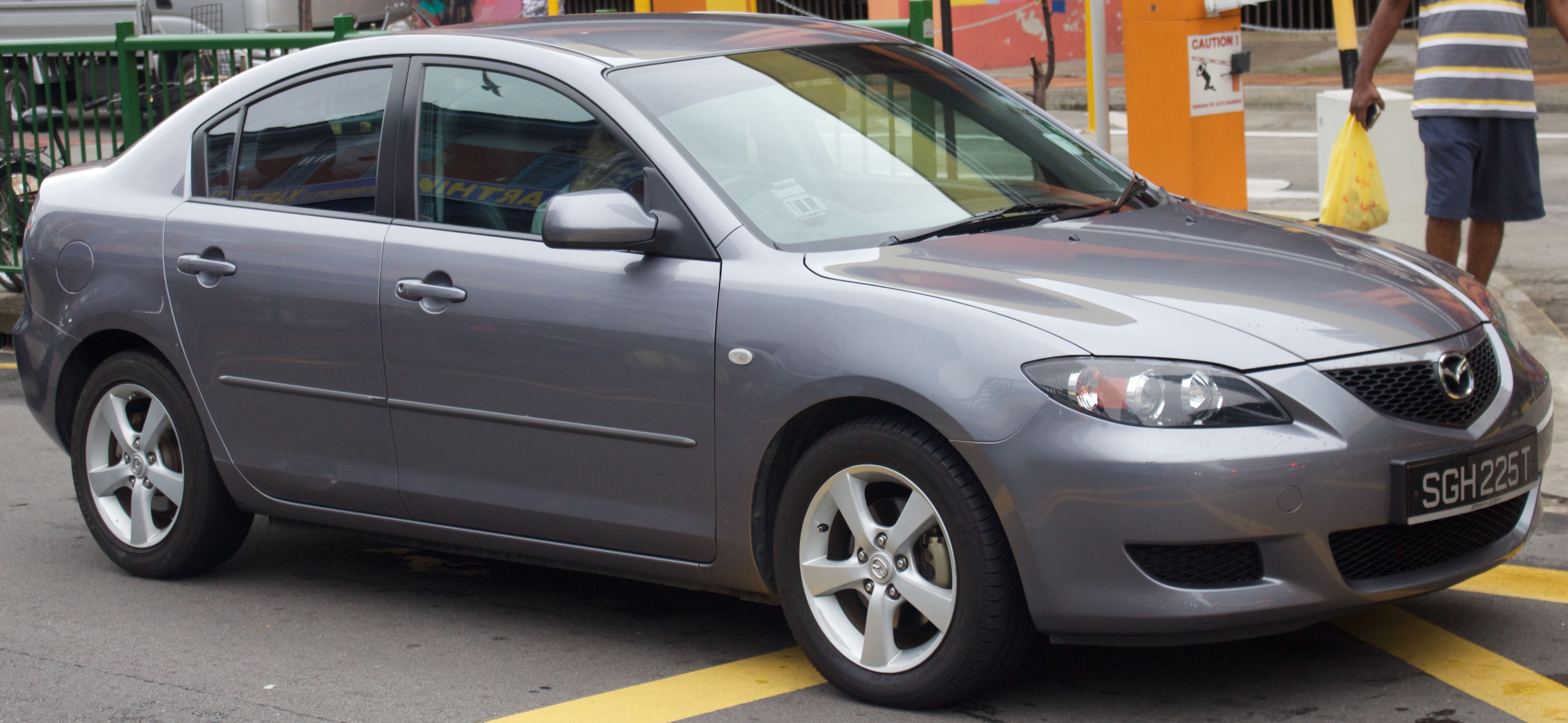 2006 Mazda 3 (BK) 1.6 Luxury sedan. Photographed in Singapore.